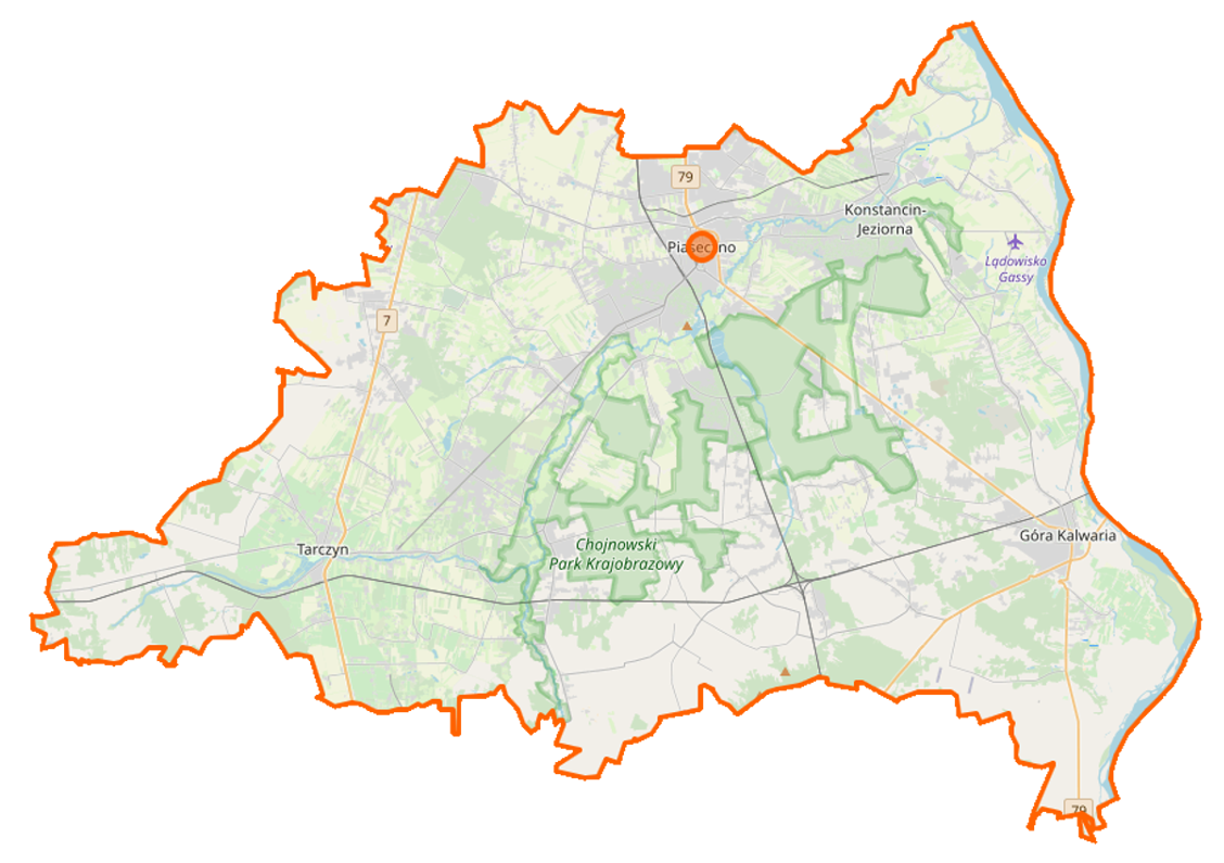 Map of Powiat piaseczyński, Poland This map of Powiat piaseczyński was created from OpenStreetMap project data, collected by the community. This map may be incomplete, and may contain errors. Don't rely solely on it for navigation.